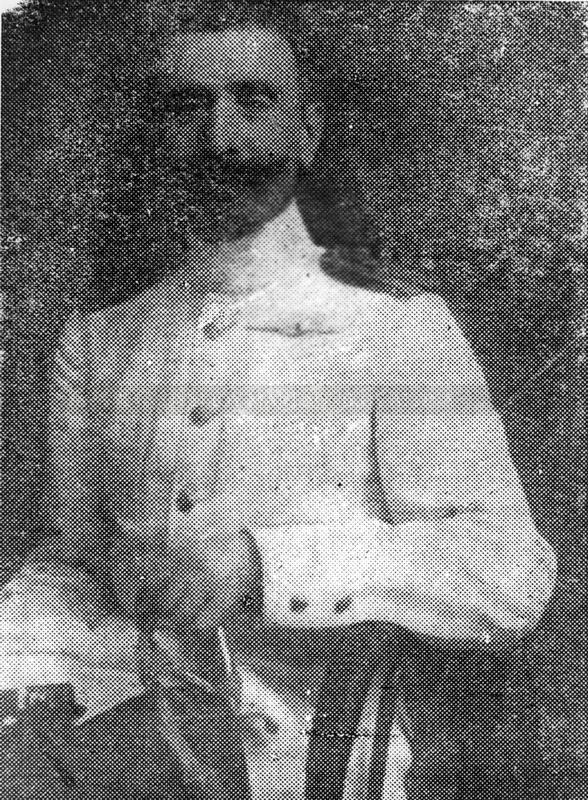 Ioannis Avrasoglou (Ιωάννης Αβράσογλου) Greek Macedonian born in Gevgelija (Γευγελή της Π.Γ.Δ.Μ.) Грците во Гевгелија Македонија